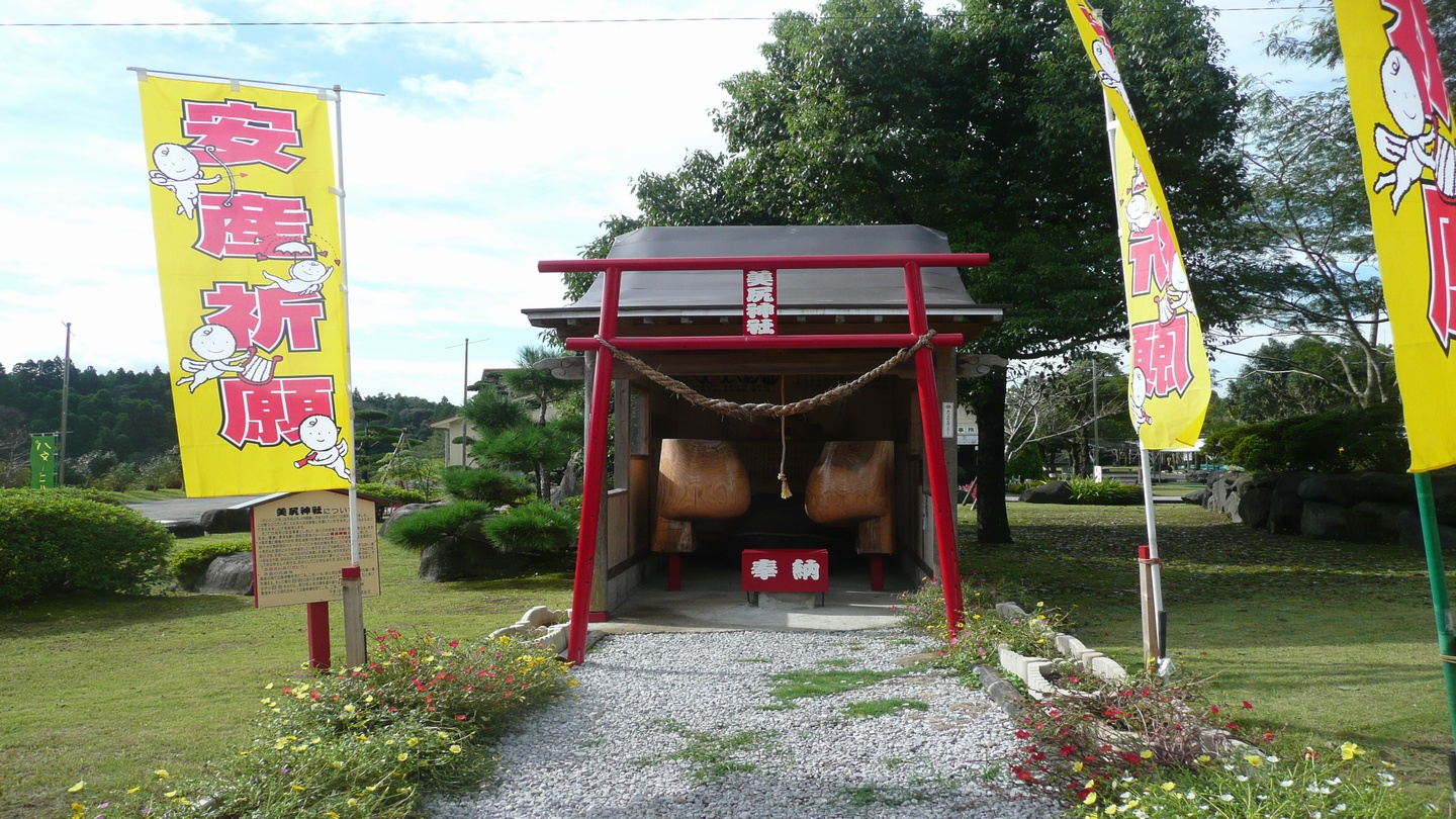 Nojirikopia - Mishiri Jinja (Nojiri, Kobayashi City, Miyazaki, Japan